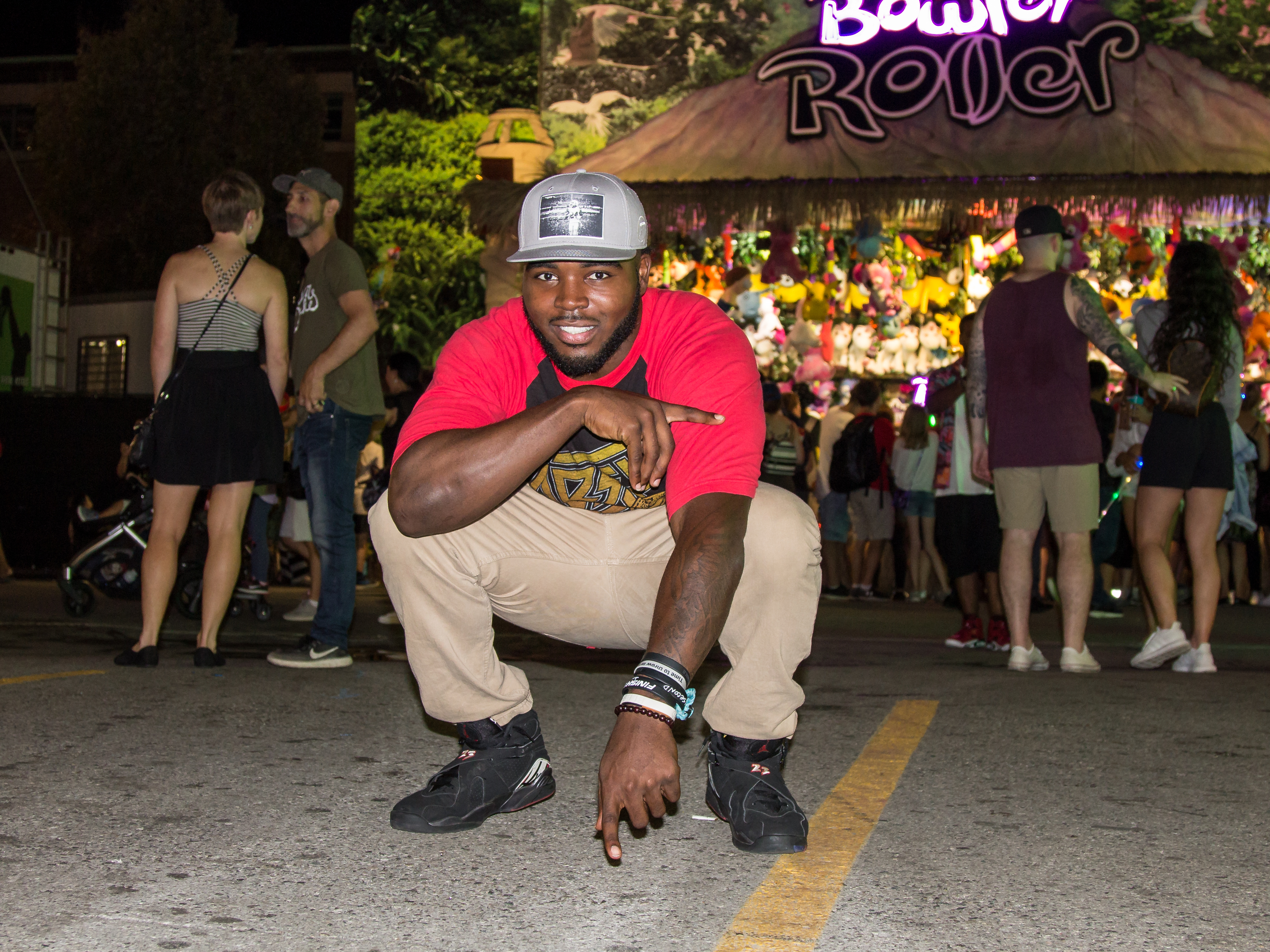 Terrance Plummer modelling for his teammates' cap line at the CNE in Toronto. Photo via Reuben Polansky